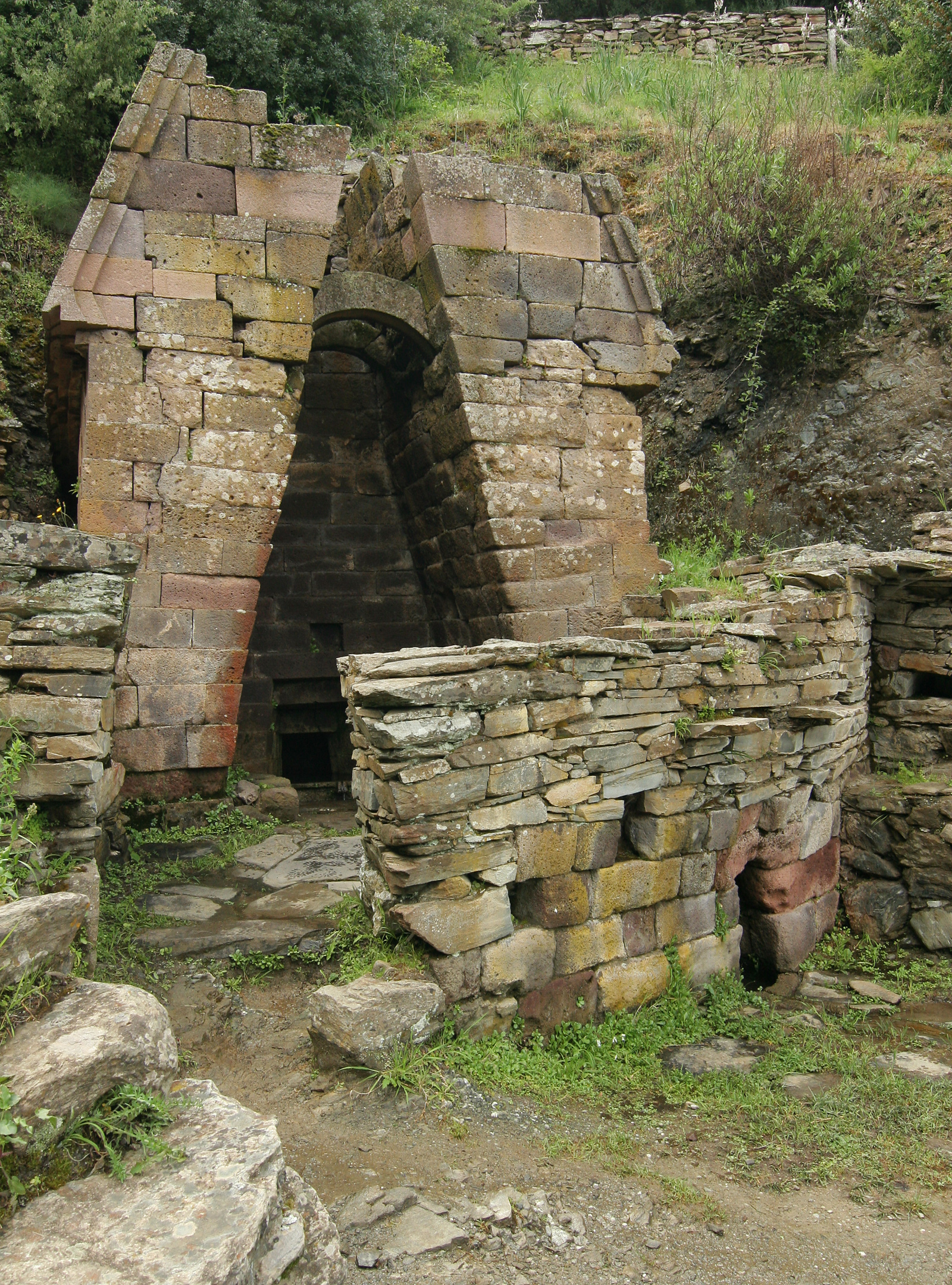 sacred source Su Tempiesu near Orune, Sardegna, Italy